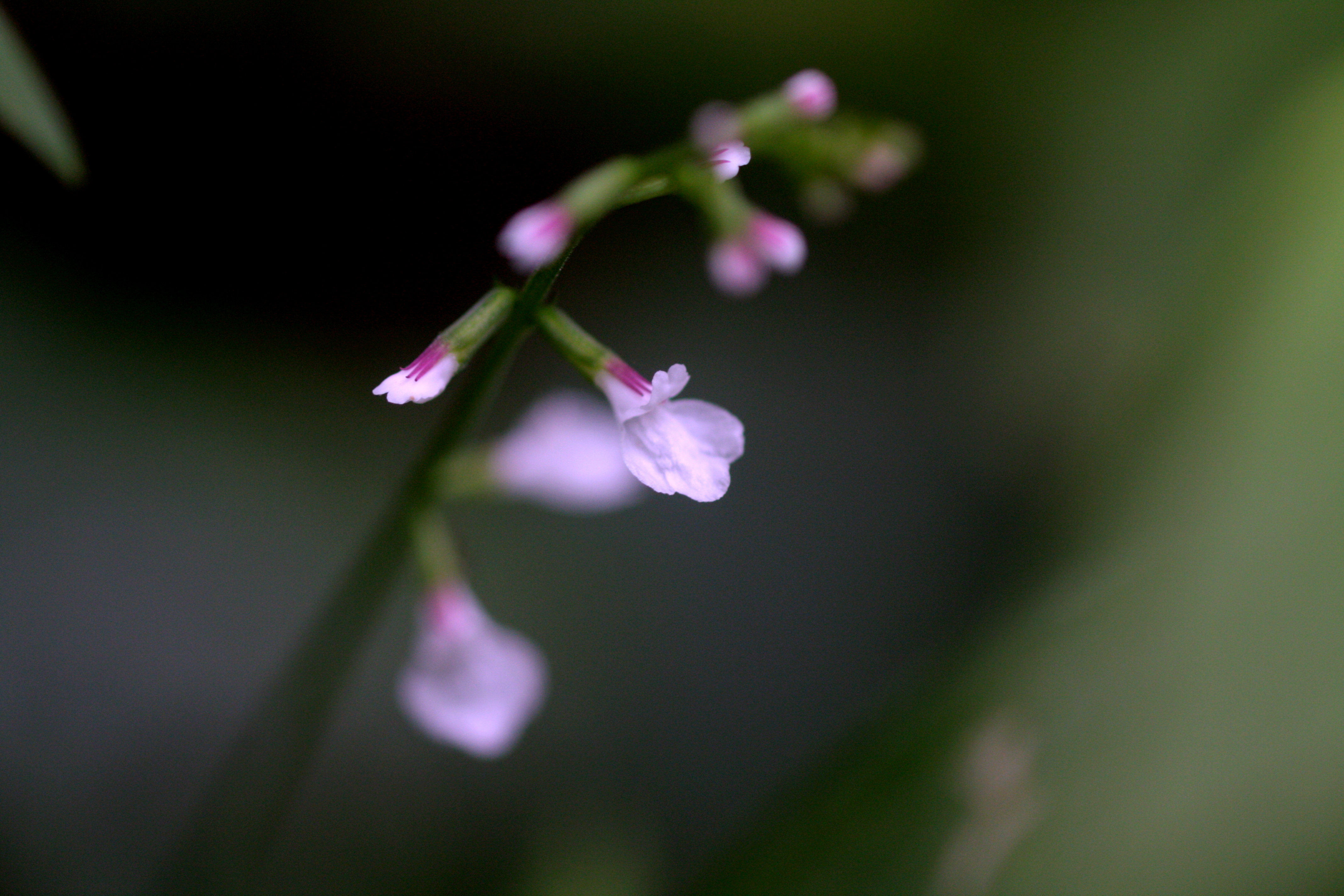 Phryma leptostachya var. asiatica